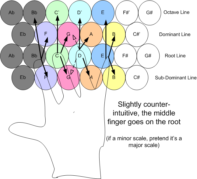 Basic fingering of a jammer. Note the small movement needed to play any note.